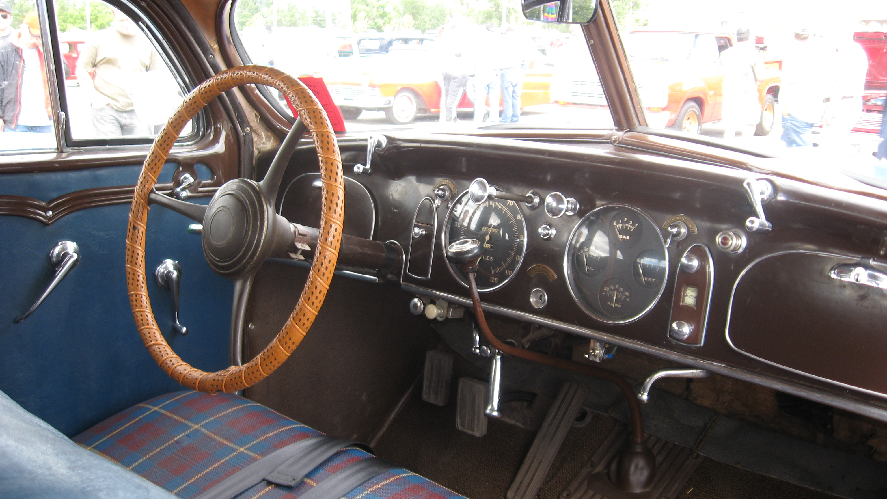 custom car, shot at local car show/swap meet